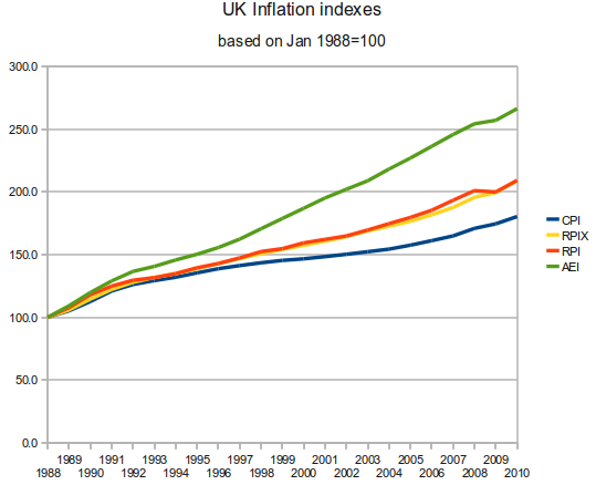 A comparison of three UK indexes of inflation currently in use: the Retail Price Index (RPI), the RPI excluding mortages (RPIX) and the Consumer Price Index (CPI). It also includes for comparison the Average Earnings Index (AEI). These are derived from the Office for National Statistics reduced to a common base of January 1988=100